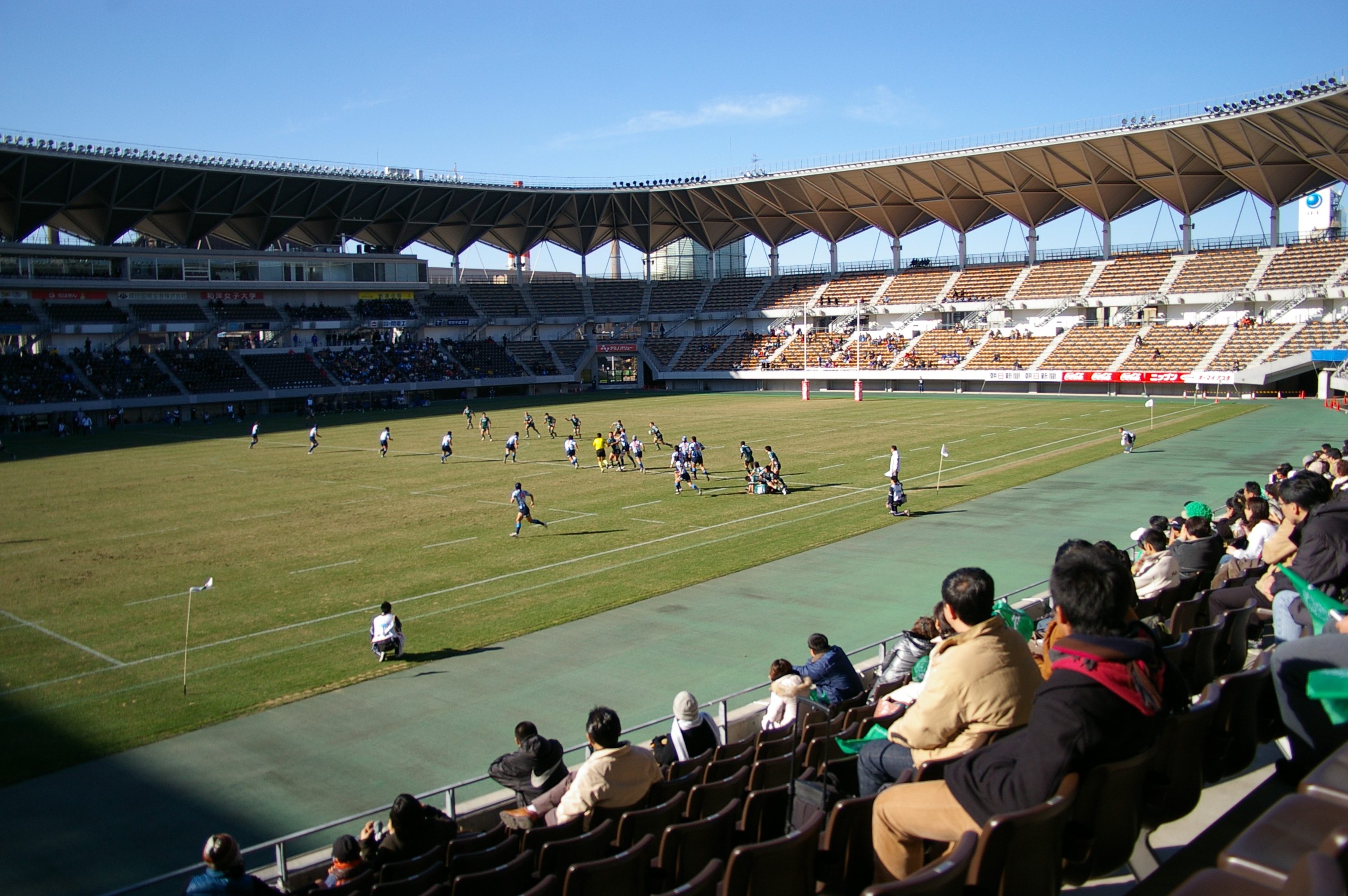 Fukudadenshi arena. Chiba-Shi,Chiba-Ken,Japan